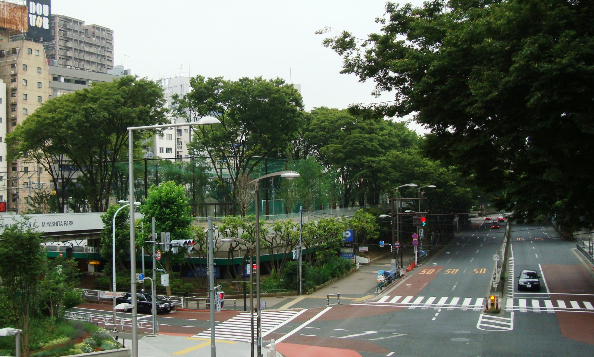 Miyashita Koen Park on Meiji-dori Avenue, Shibuya city, Tokyo